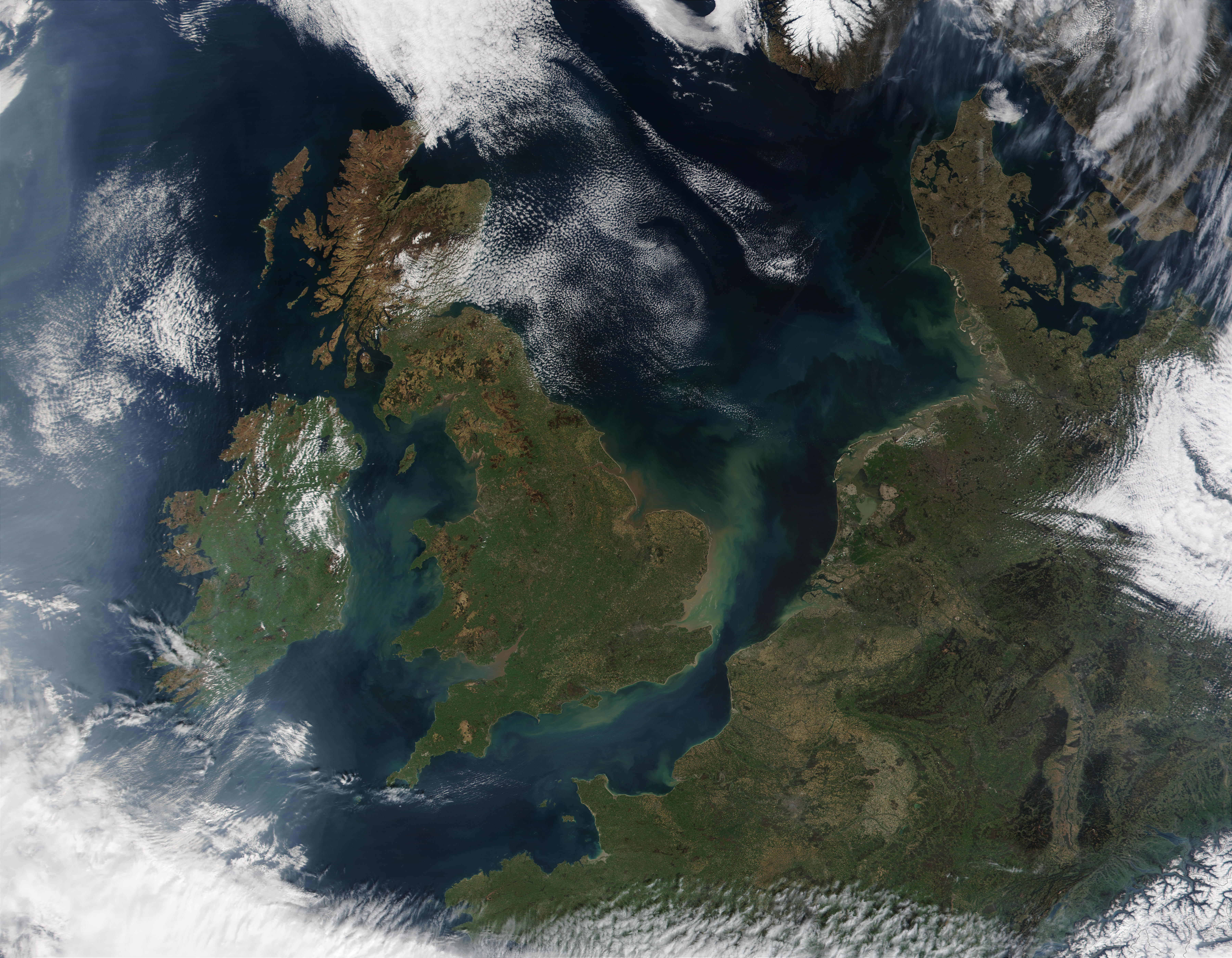 Satellite image of North-Western Europe in April 2002.